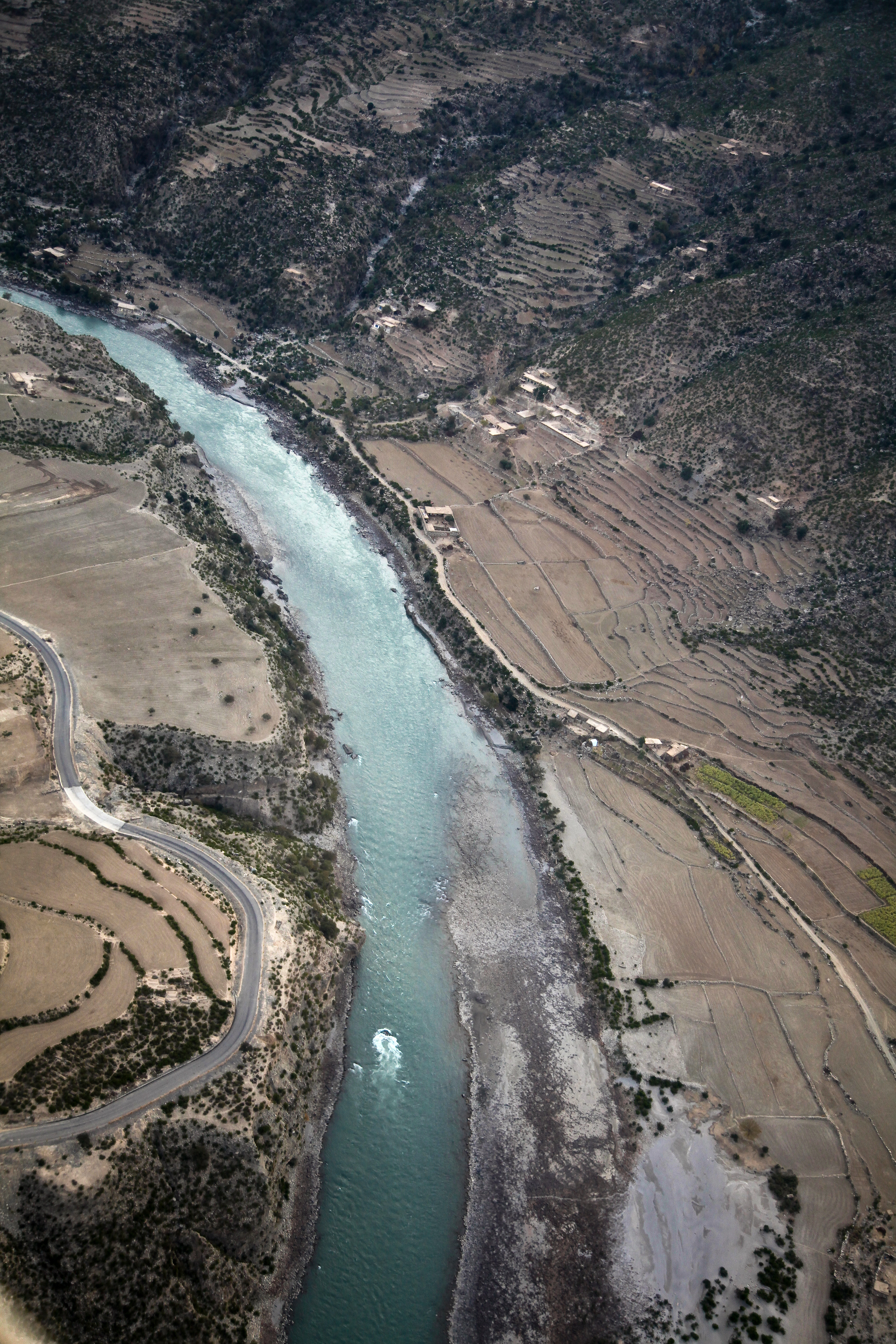 The Kunar River, which flows across the Kunar province of Afghanistan, is seen from the cabin of a helicopter Dec. 2, 2009. (Photo ID: 229737)